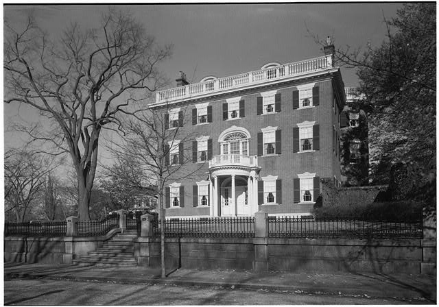 Thomas P. Ives House, 66 Power Street, Providence (Providence County, Rhode Island) (cropped)